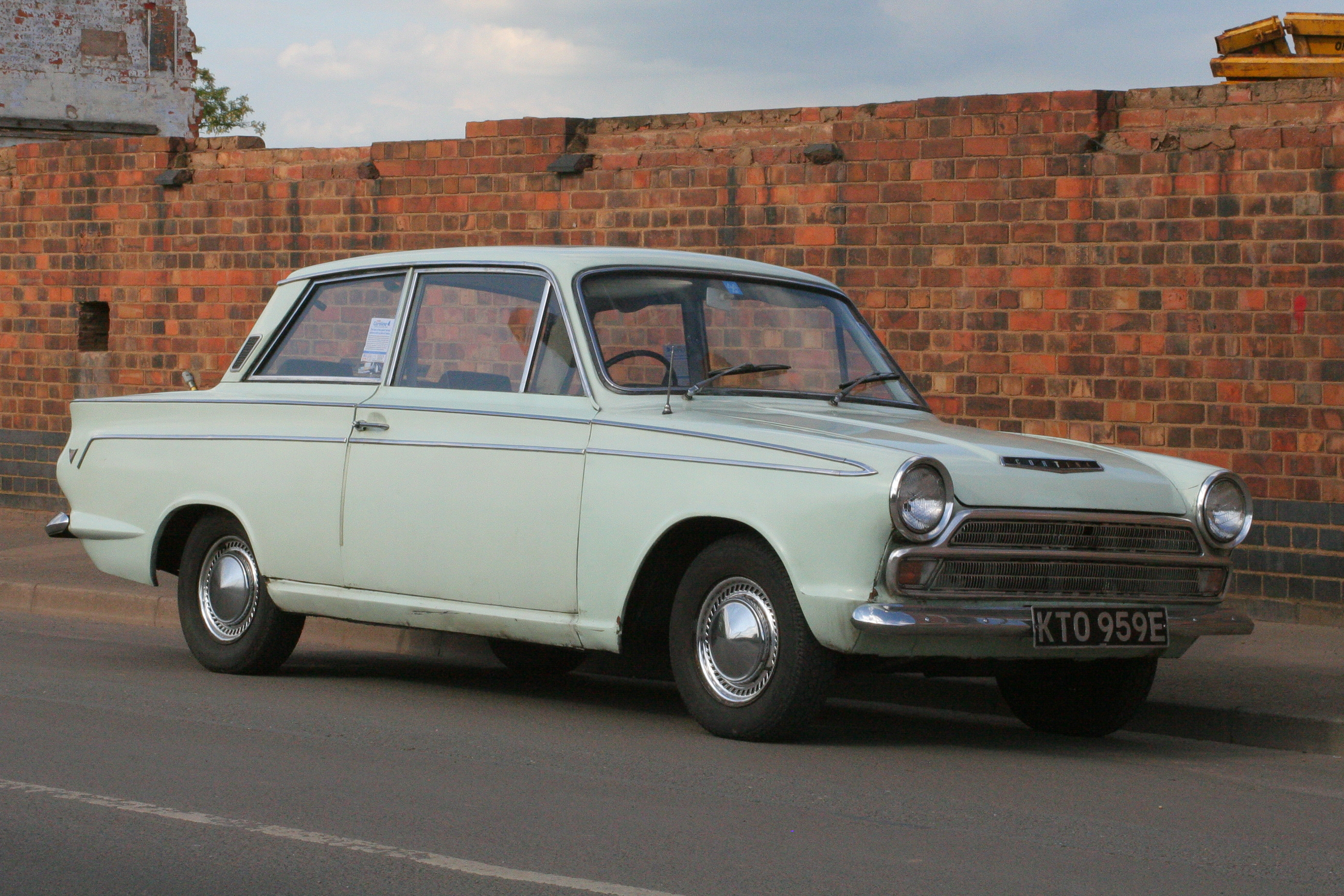 Ford Cortina Mark 1 registration KTO959E parked on Windmill Road, Loughborough. The old E registration suffix indicates the car was registered in the UK between January and September 1967. BUT the Mark 1 Cortina - this model - was replaced in October 1966 when the Cortina Mark 2 (which presumably had been coming off the Dagenham production line since the factory reopened after the 1966 summer vacation break) was announced. So either this car sat around at the dealer's premises unregistered (possibly being taken out as a demonstrator only using red-on-white "trade plates") in the UK until 1967. OR this is not the original registration plate - eg if the car was originally registered in another country - eg Ireland - but was then reimported into the UK in 1967 and allocated a license plate that did not respect the original year of manufacture. OR it was assembled in a small satellite plant - possibly the Ford factory in Cork, Ireland, using pressings/components shipped from Dagenham where they had been stamped out before October 1966, but assembled later, then imported and registered in the UK. Or .. or. I'm sure there are other explanations available. But it's definitely a Mark 1 Cortina. The front grill treatment (ie with the side lights squared off and integrated into the ends of the grill) and the extractor vents on the C-pillar (part of the much trumpeted through-flow ventilation) indicate that this car was produced AFTER the facelift announced for October 1964. The uploader adds: "I also think this is a Mk1 Cortina, as the Mk2 have different headlights".